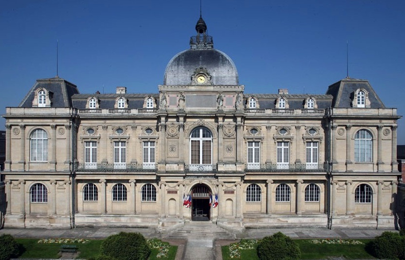 Musée de Picardie Amiens